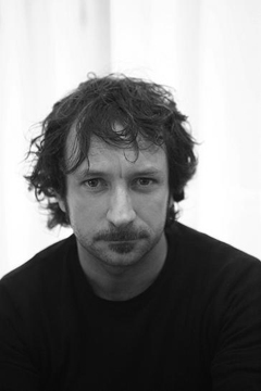 claudio batta